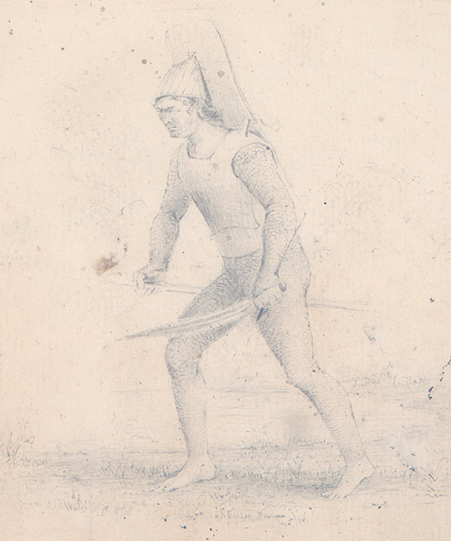 Drummond's Island warrior by Alfred Agate. United States Exploring Expedition. 1841